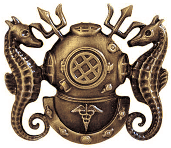 US Navy Dive Medical Officer created by the USN